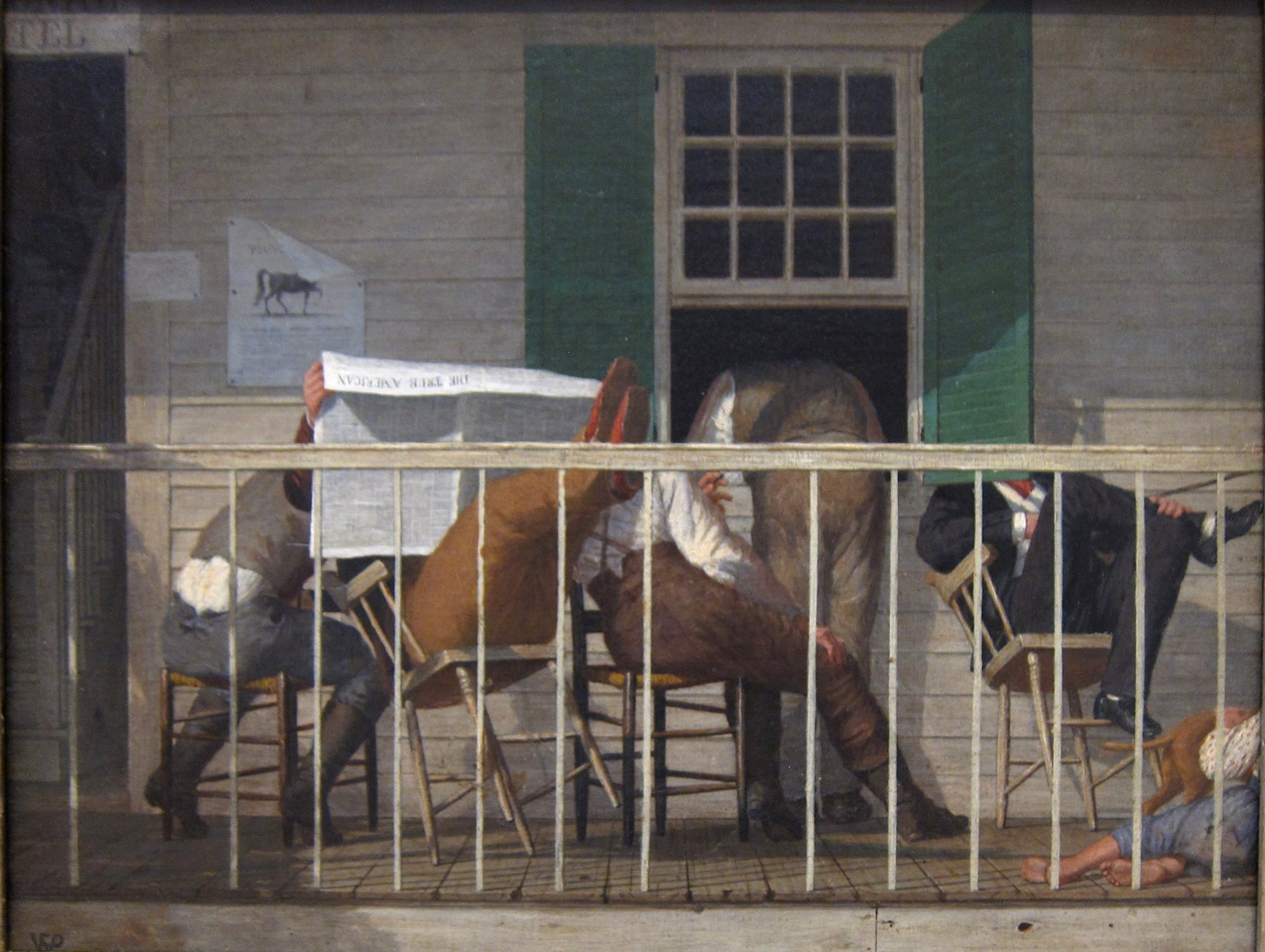 The True American, attributed to Enoch Wood Perry, Jr., c. 1845-1860, oil on canvas, Metropolitan Museum of Art, accession 55.177